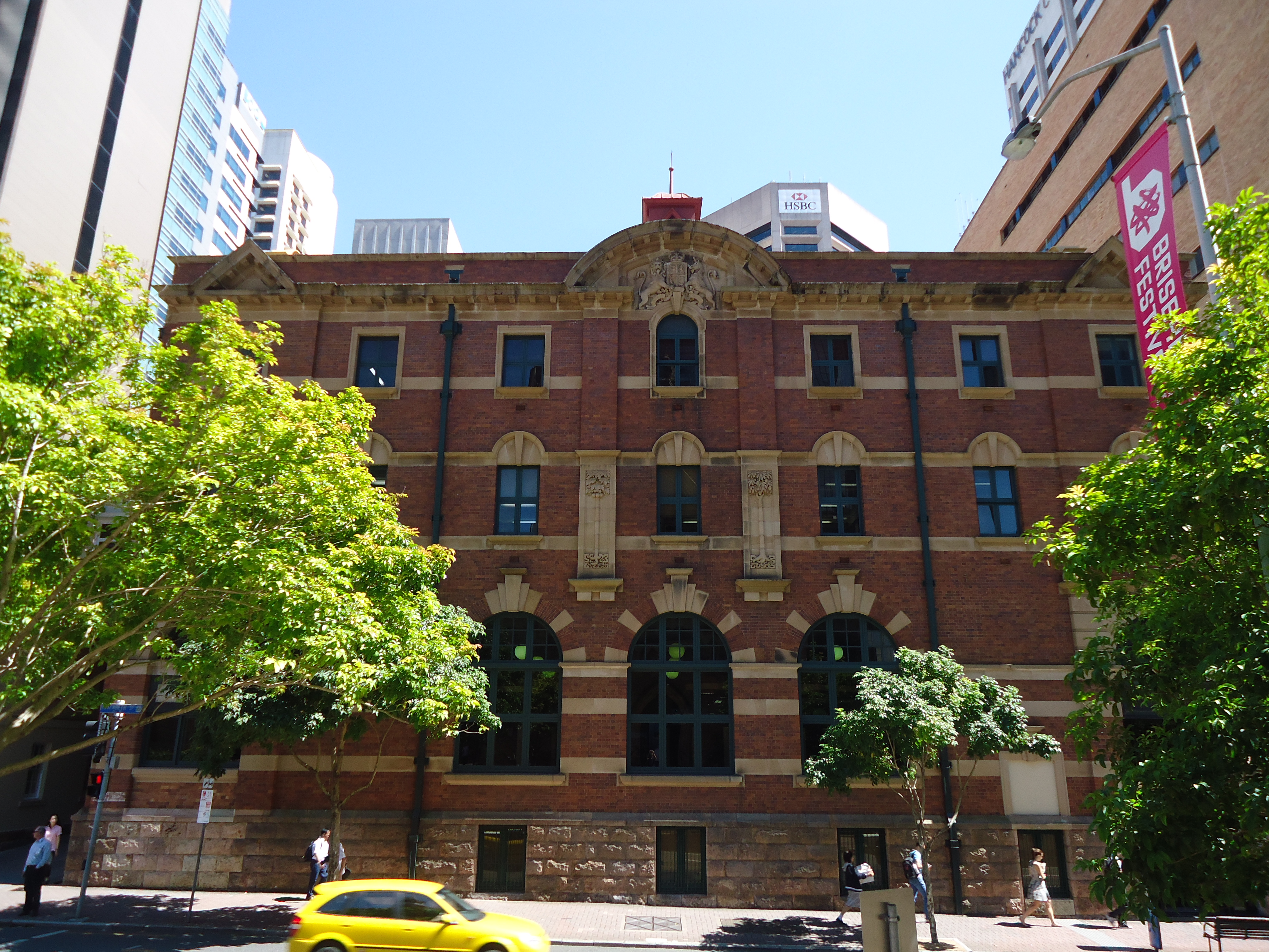 Architect: T. Pye